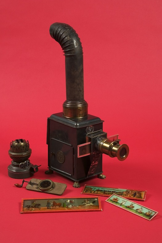 The object in this image is within the permanent collection of The Children’s Museum of Indianapolis